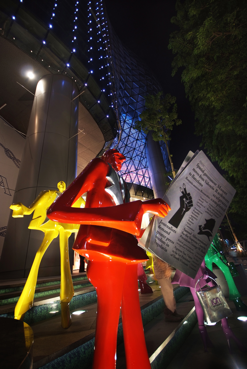 Urban People (2009) by |Kurt Laurenz Metzler on display outside ION Orchard, Singapore.